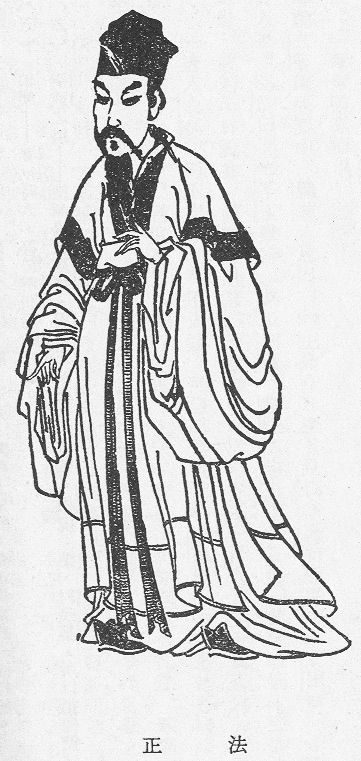 Portrait of the officer Fa Zheng from a Qing Dynasty edition of The Romance of the Three Kingdoms.